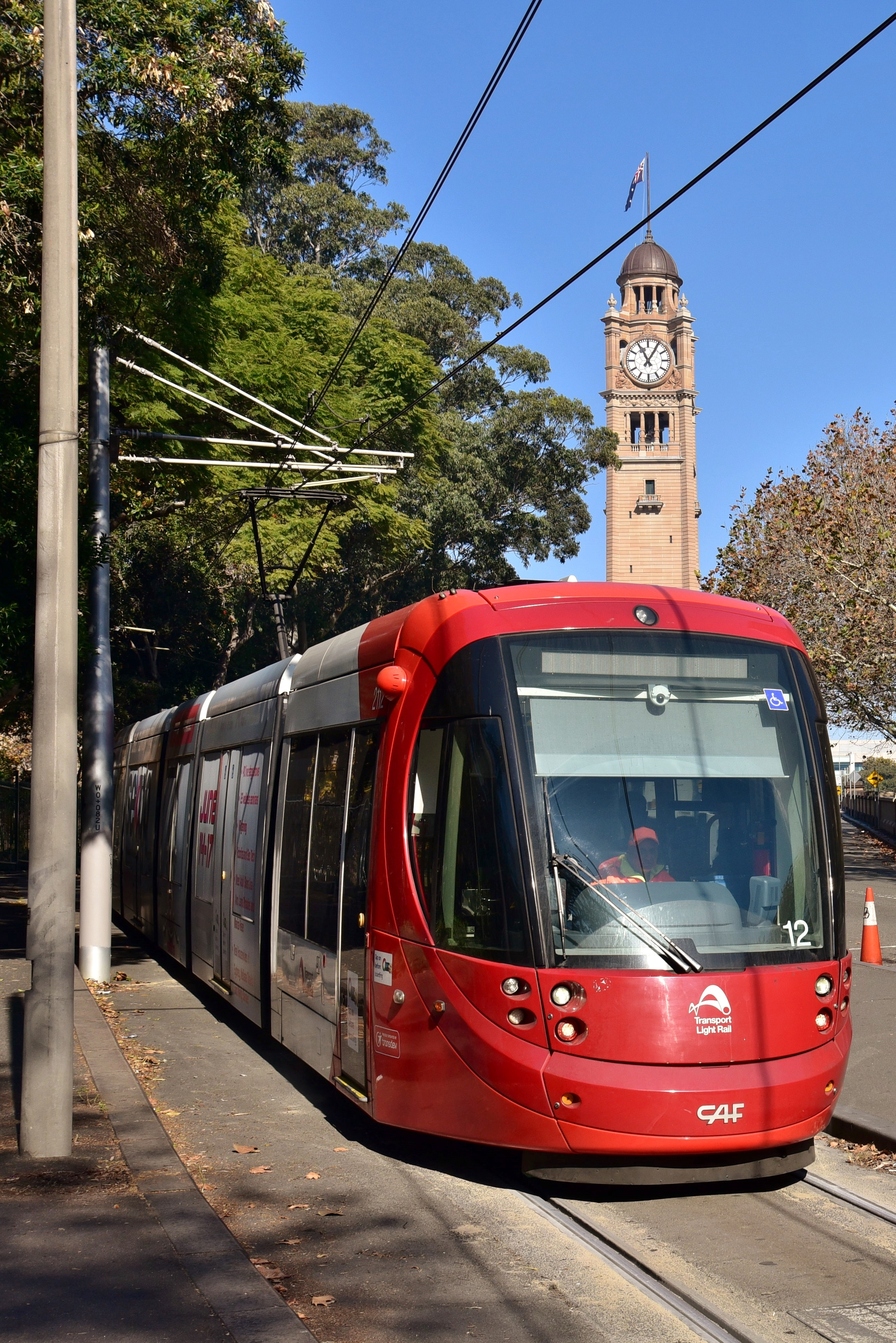 Sydney Light Rail tram no. 2112 departing from Central with a Dulwich Hill-bound Dulwich Hill Line service